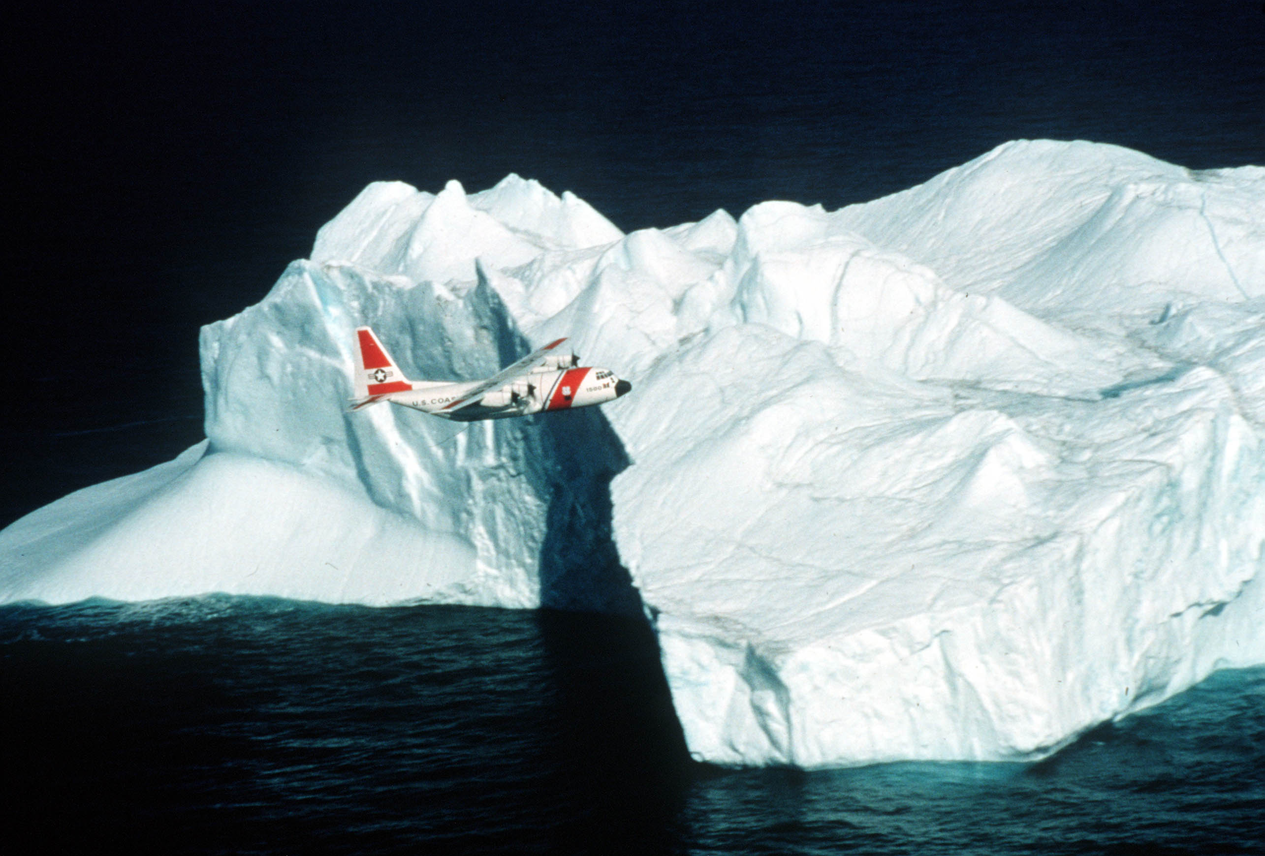 A Coast Guard C-130 aircraft overflies an iceberg during patrol in the Arctic Ocean.